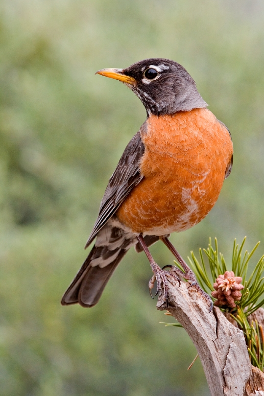 Turdus migratorius American Robin, Cabin Lake Viewing Blinds, Deschutes National Forest, Near Fort Rock, Oregon